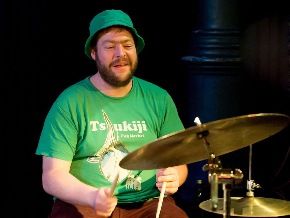 Kresten Osgood, Jazz drummer; Picture taken in Jazz Club Unterfahrt, Munich/Bavaria